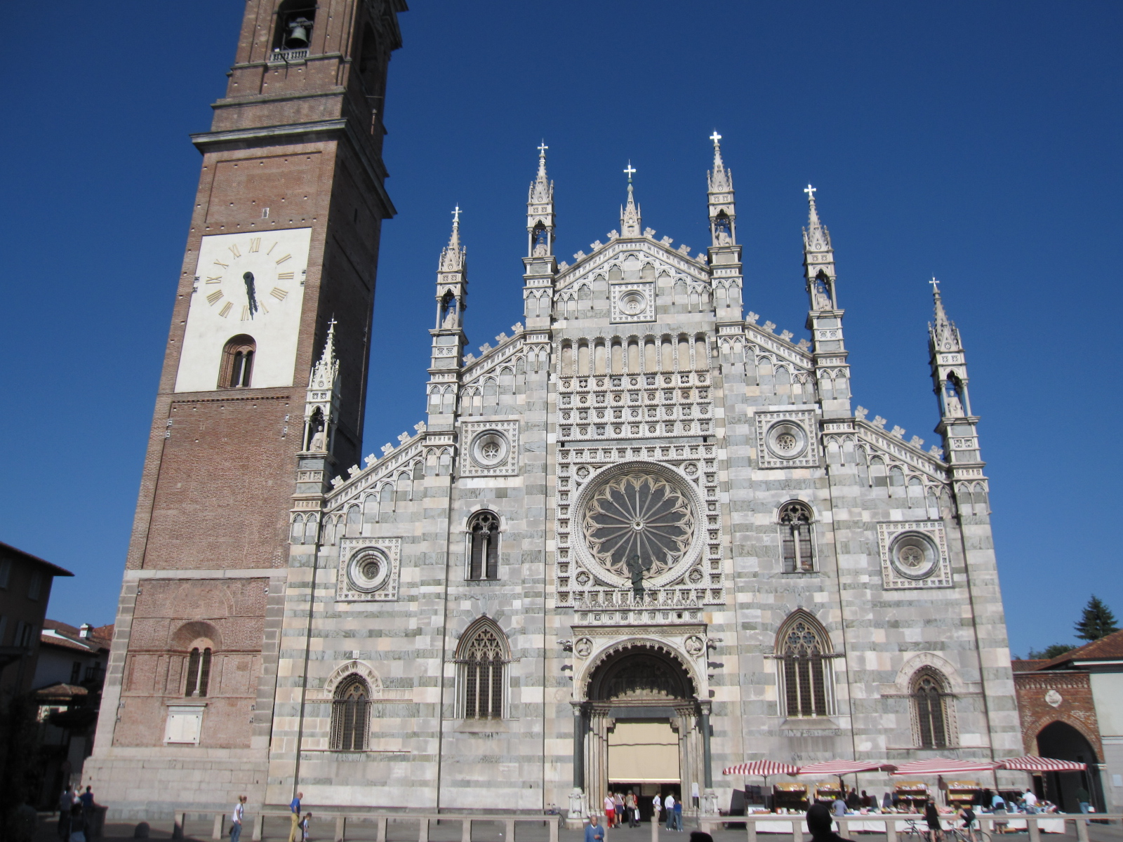 The Duomo of Monza in Lombardy.